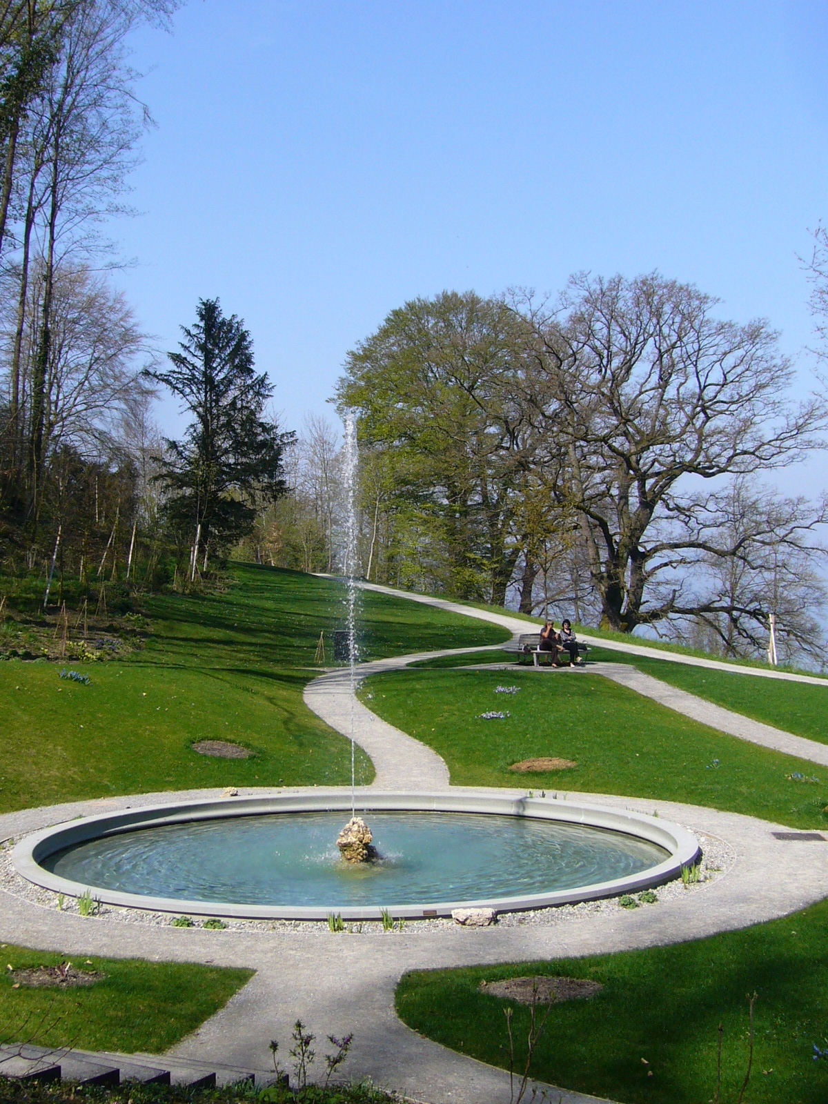 Garden of the castle of Arenenberg, Salenstein, TG, Switzerland